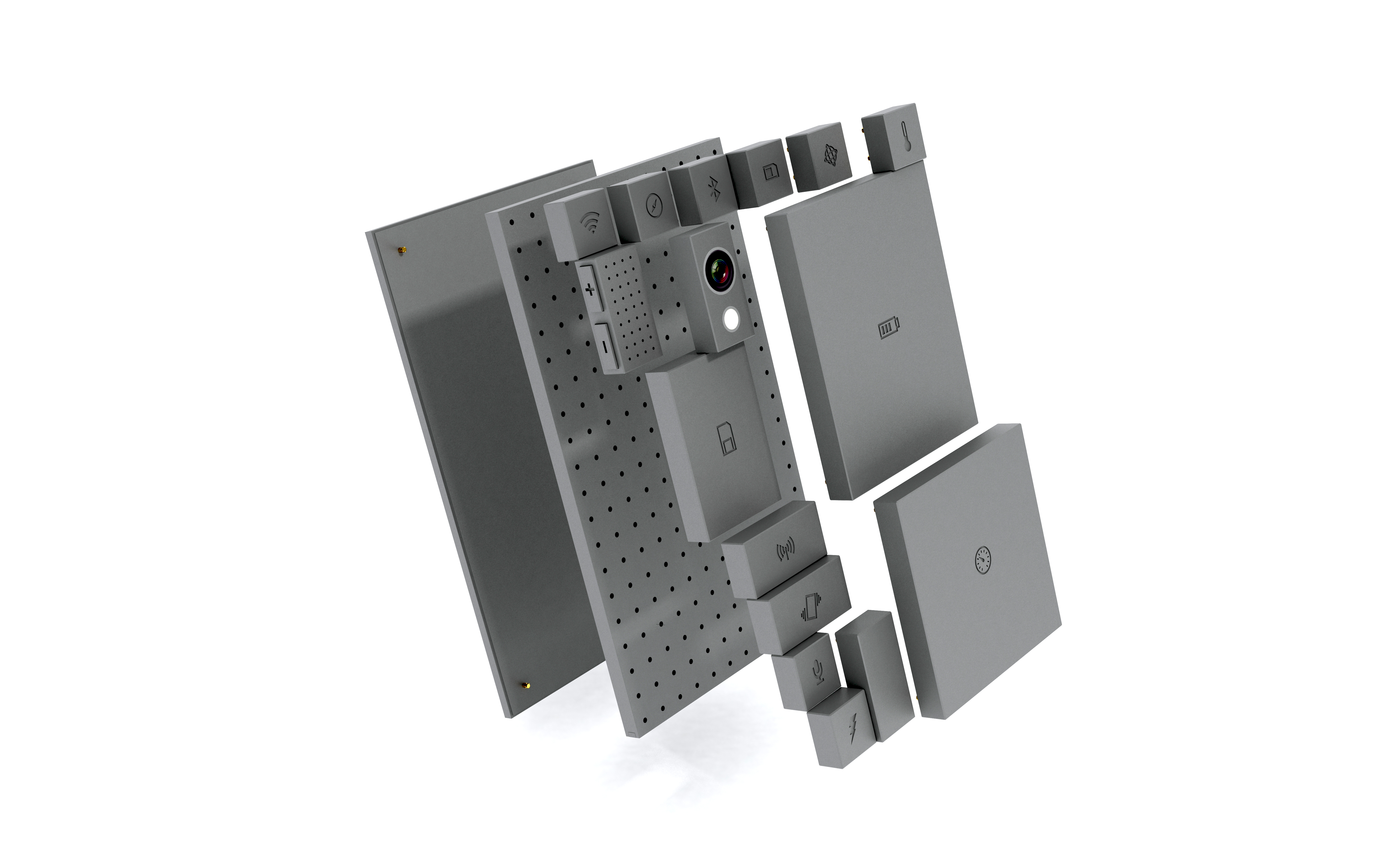 Phonebloks open.